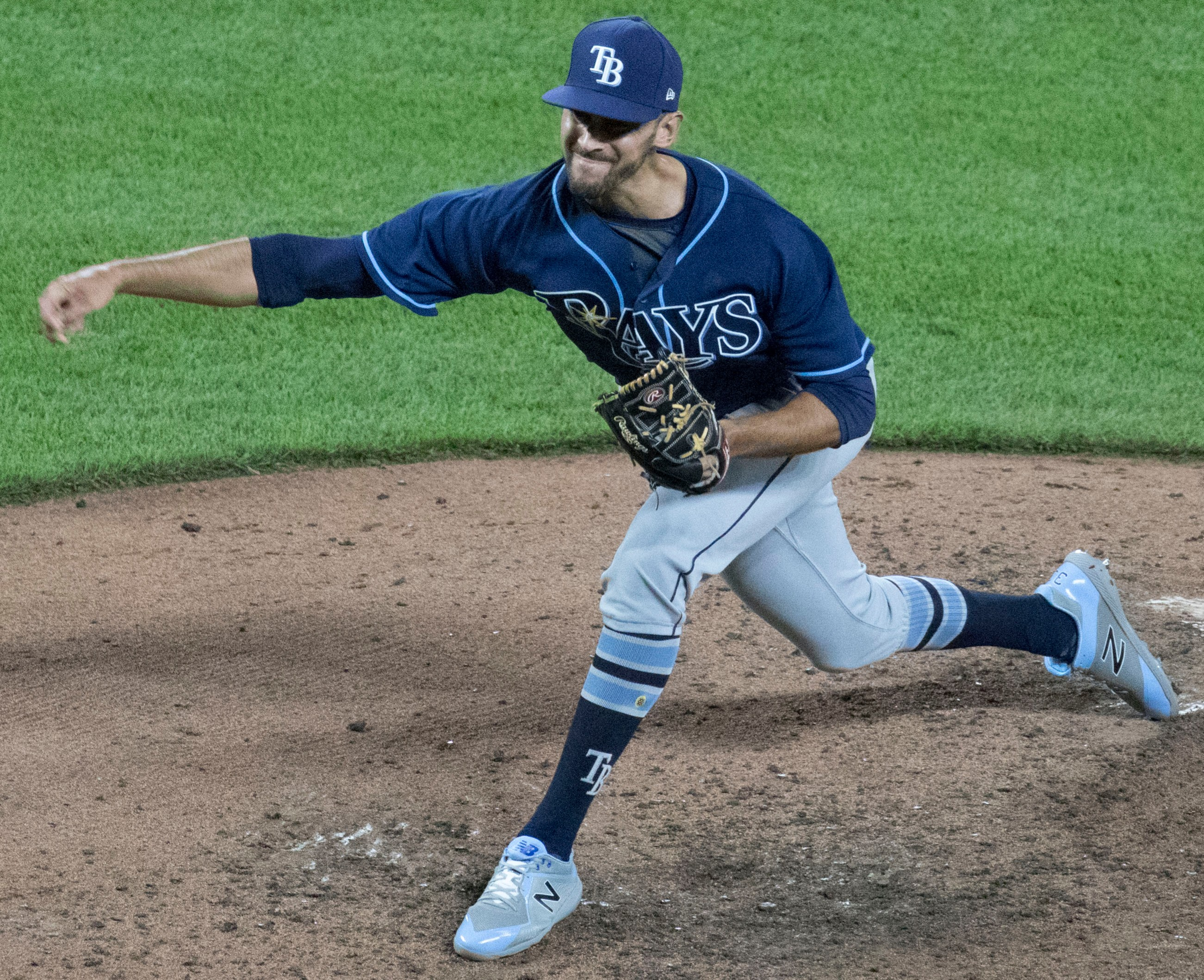 Rays at Orioles 9/21/17